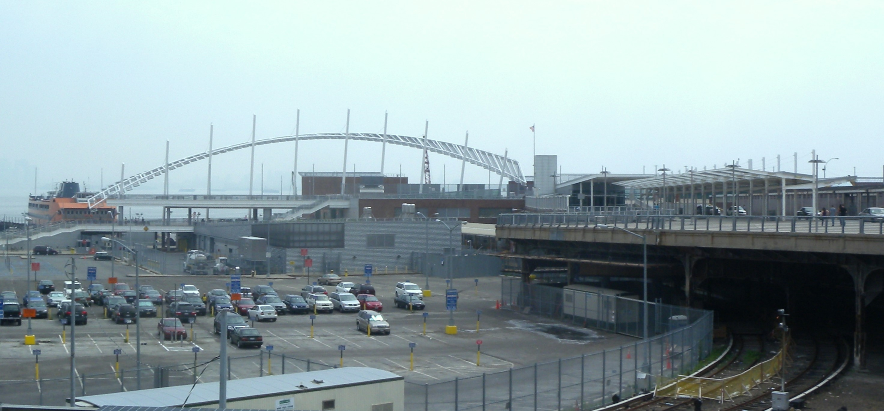 Looking northeast from Richmond Terrace on a misty late morning.